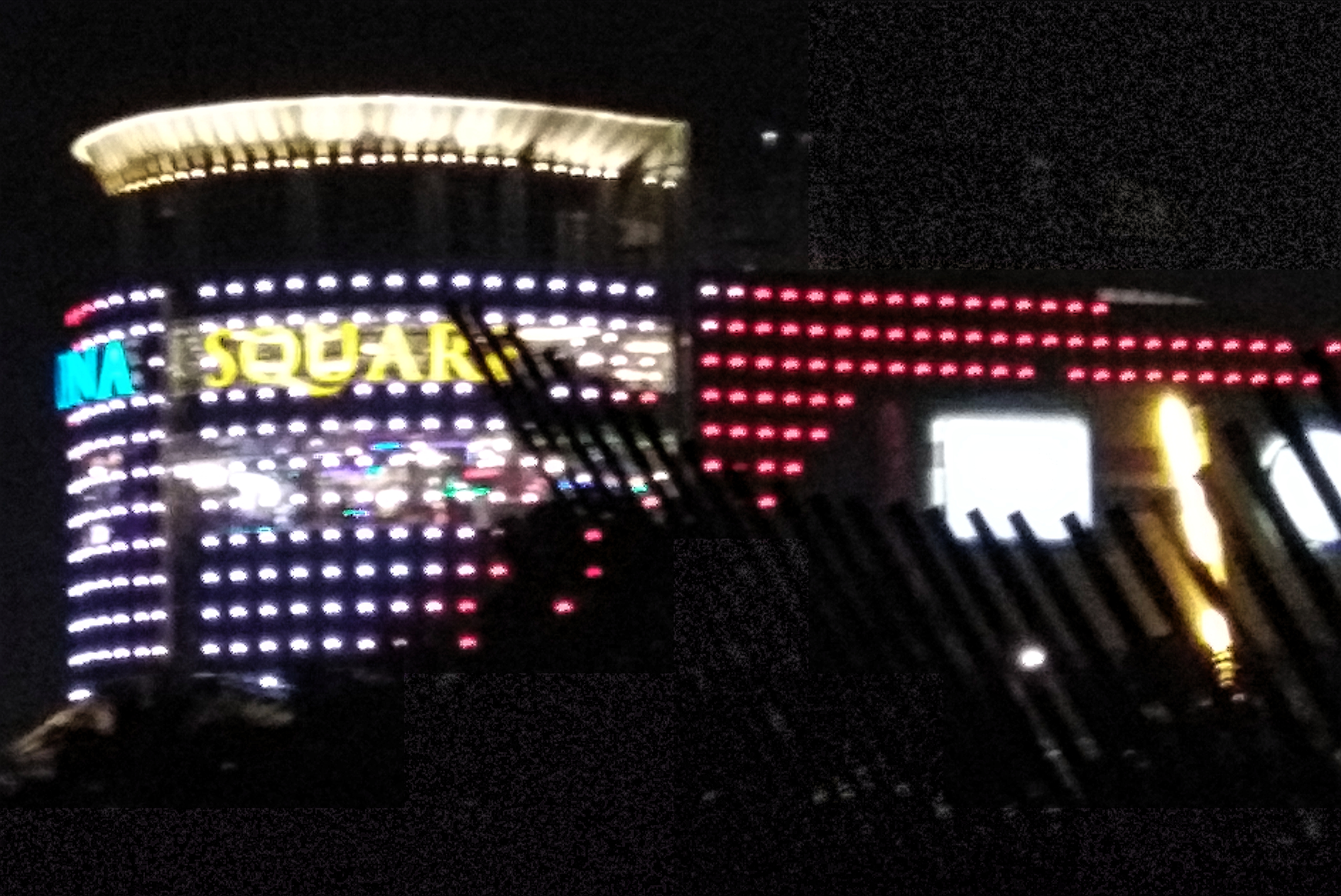 Pesona Square shopping mall, Depok, Greater Jakarta